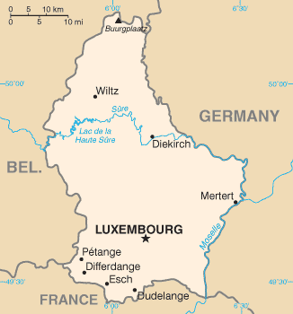 CIA World Factbook map of Luxembourg